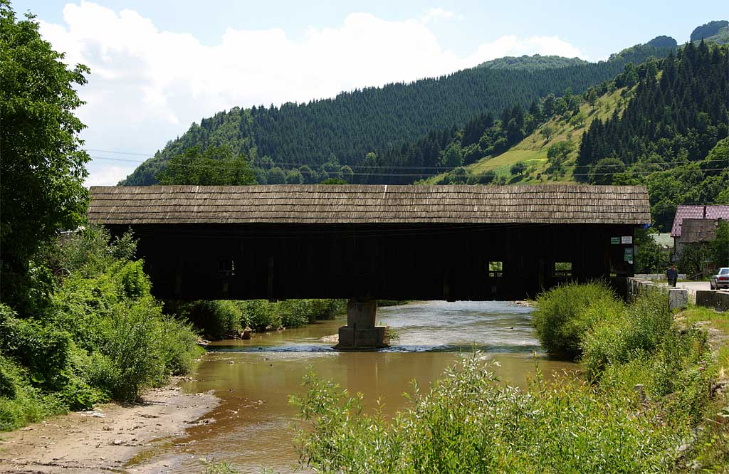 Cosbuc - Wooden bridge over the river Sălăuţa